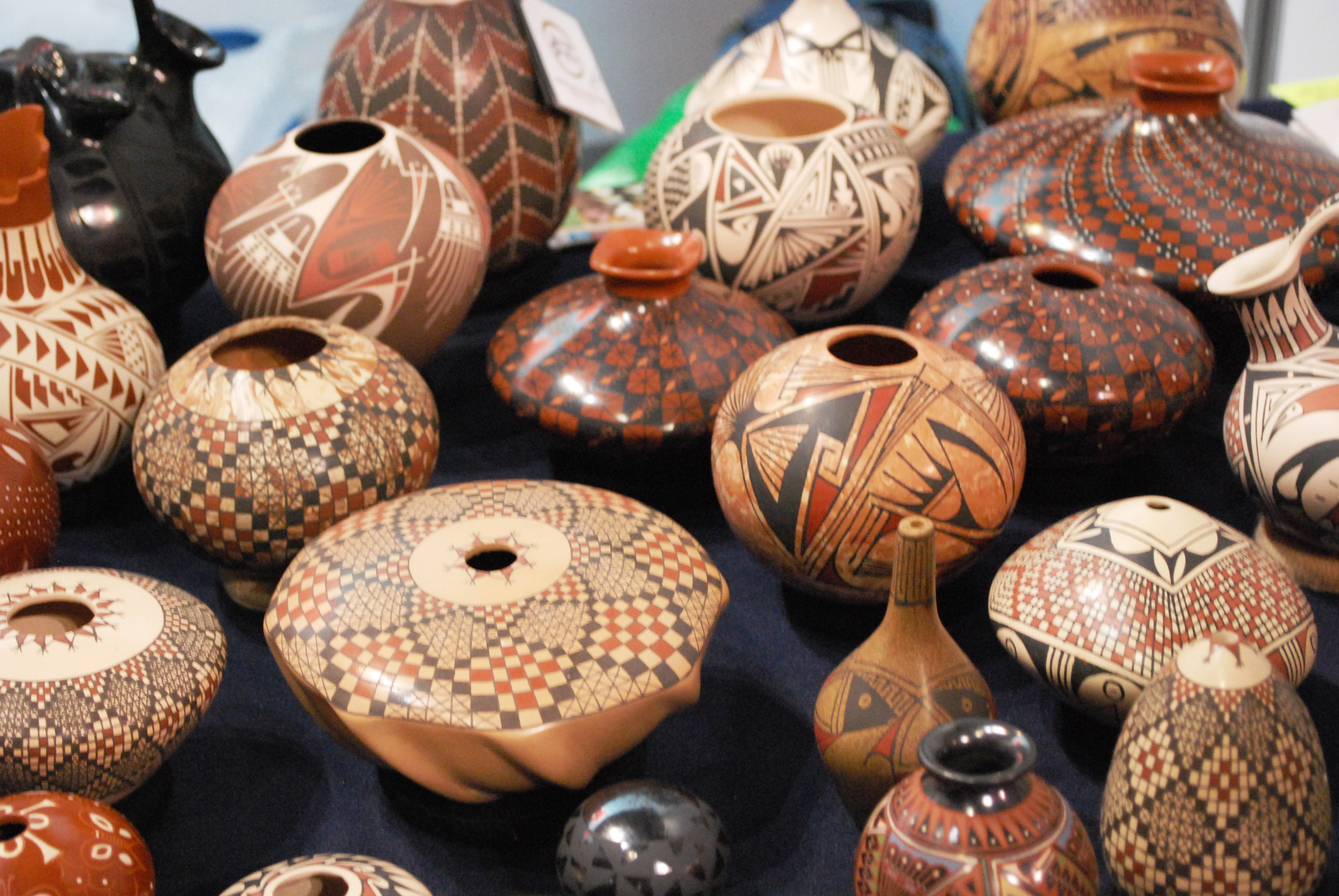 Mata Ortiz pottery from Chihuahua on display at the FONART exhibition 2010 in Mexico City